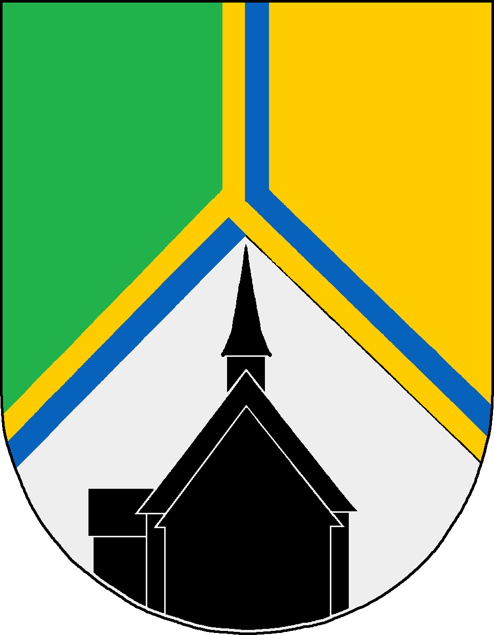 Coat of arms of the municipality Uelsby in Schleswig-Holstein, Germany.